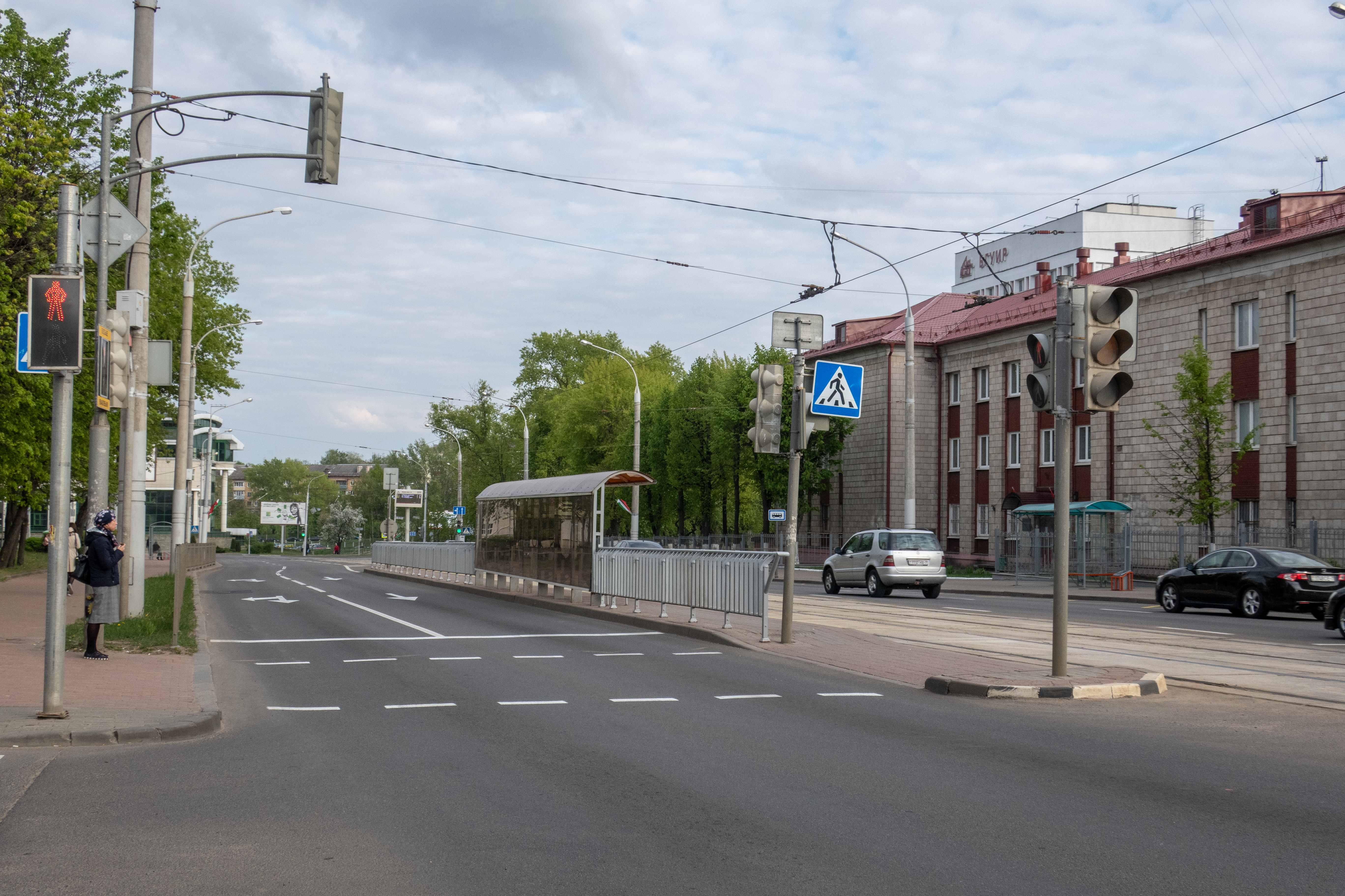 Kazlova Street (Minsk, Belarus)